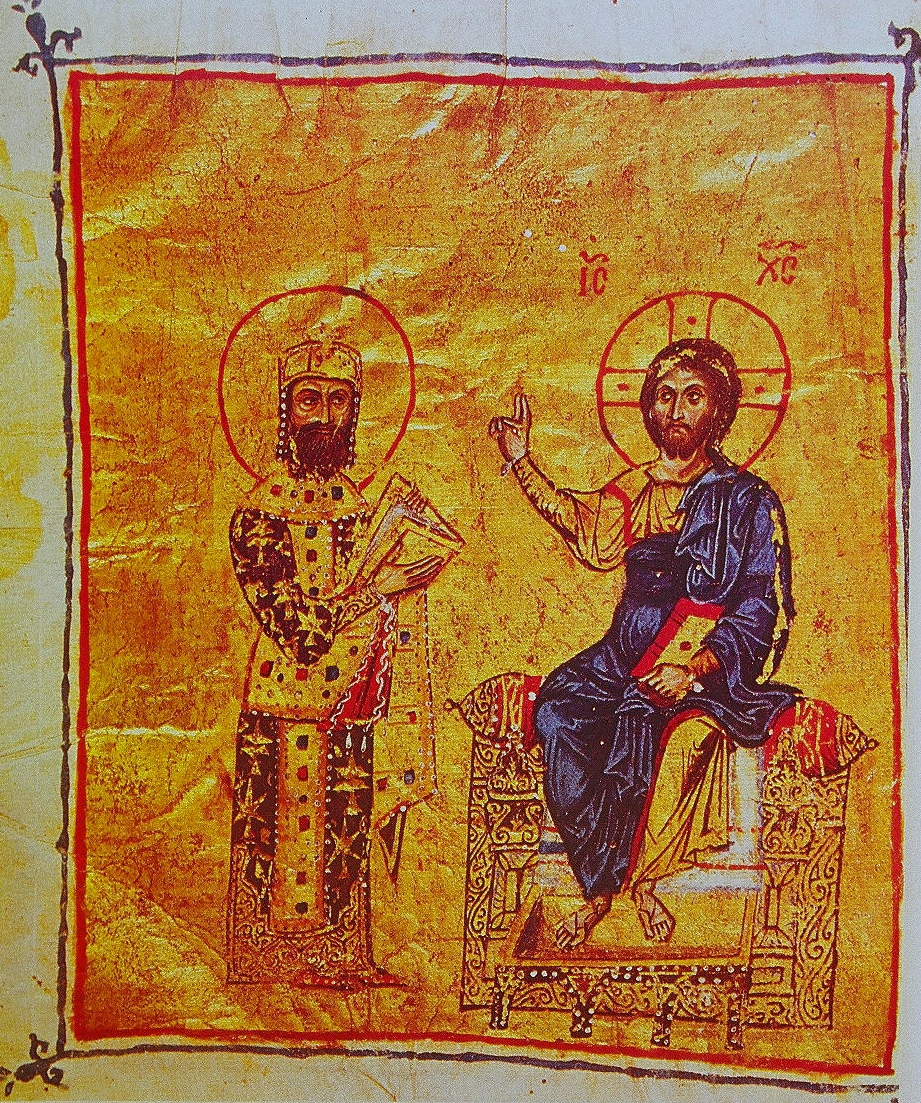 Miniature of the Byzantine Emperor Alexios I Komnenos (r. 1081-1118), being blessed by Christ.